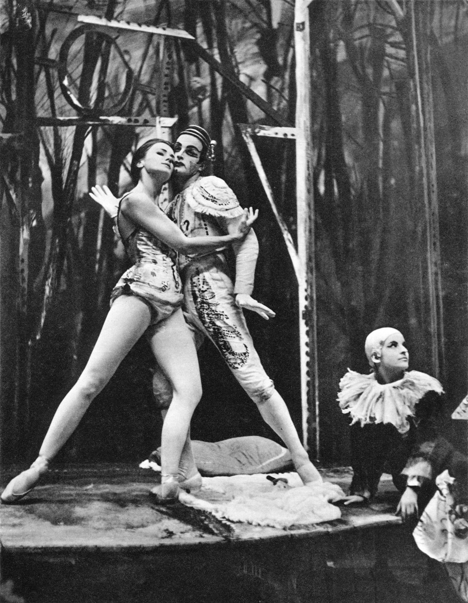 Krzyszkowska and Gruca, classical Polish dancers, in Luigi Nono's ballet "The red cloak".